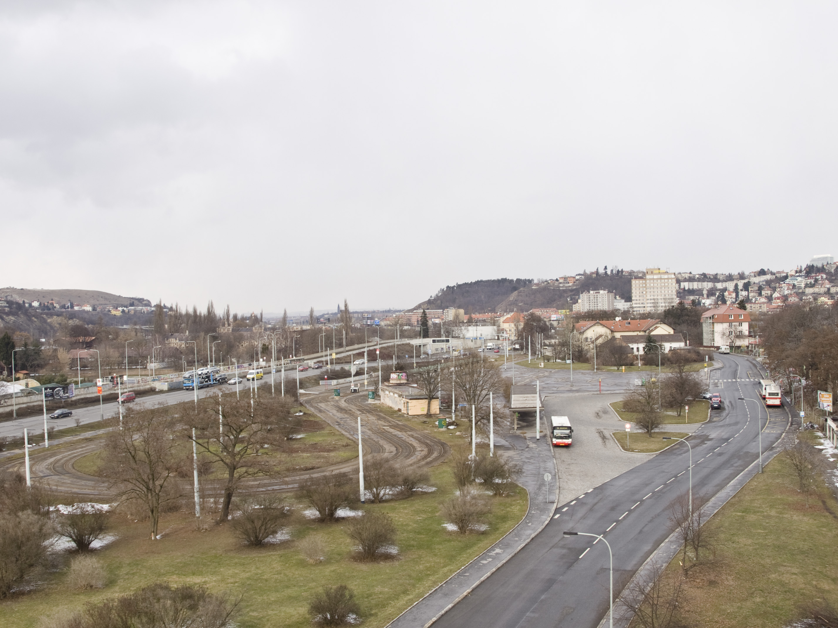 Public transport terminal Braník from railway bridge Braník – Malá Chuchle, Prague